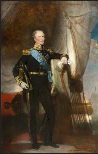 Admiral Sir Peter Halkett of Pitferrane (1765–1839)